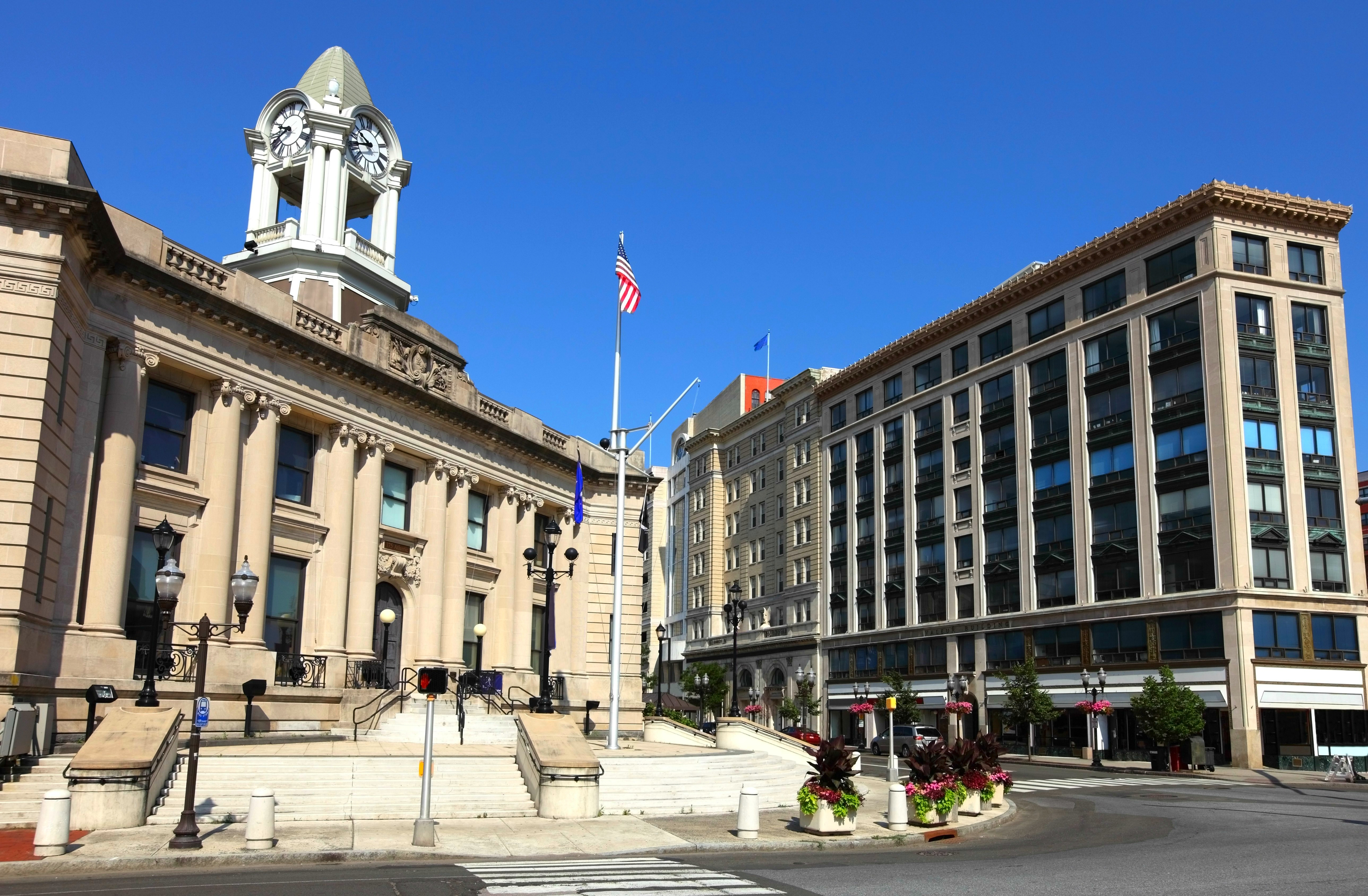 1Stamford's Old Town Hall, a historic beaux arts building that was added to the National Register of Historic Places in 1972.